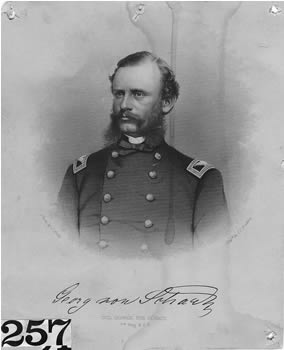 Col. George W. Von Schack, (7th New York Infantry)